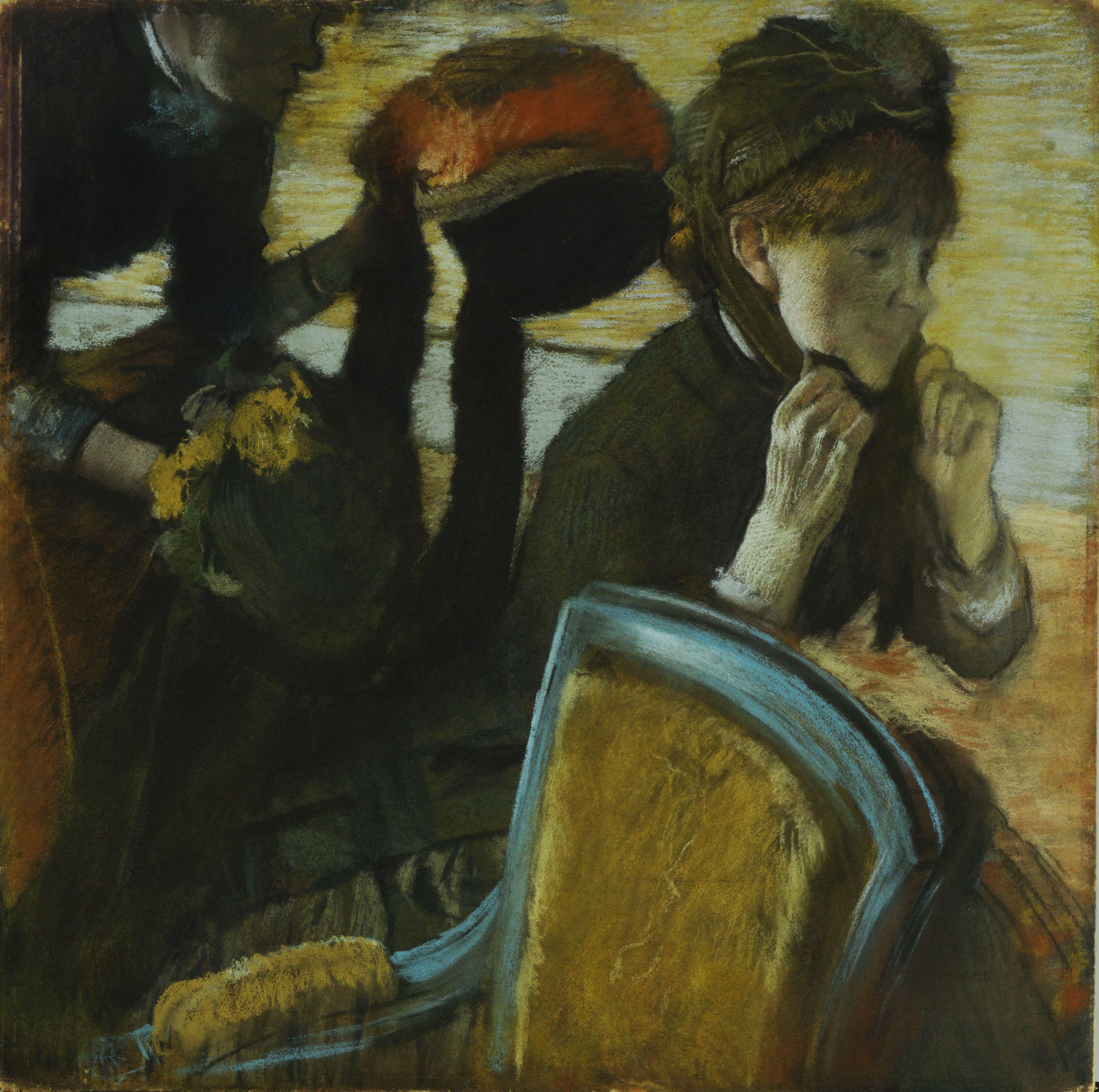 At the Milliner's, Pastel, 70.2 x 70.5 cm